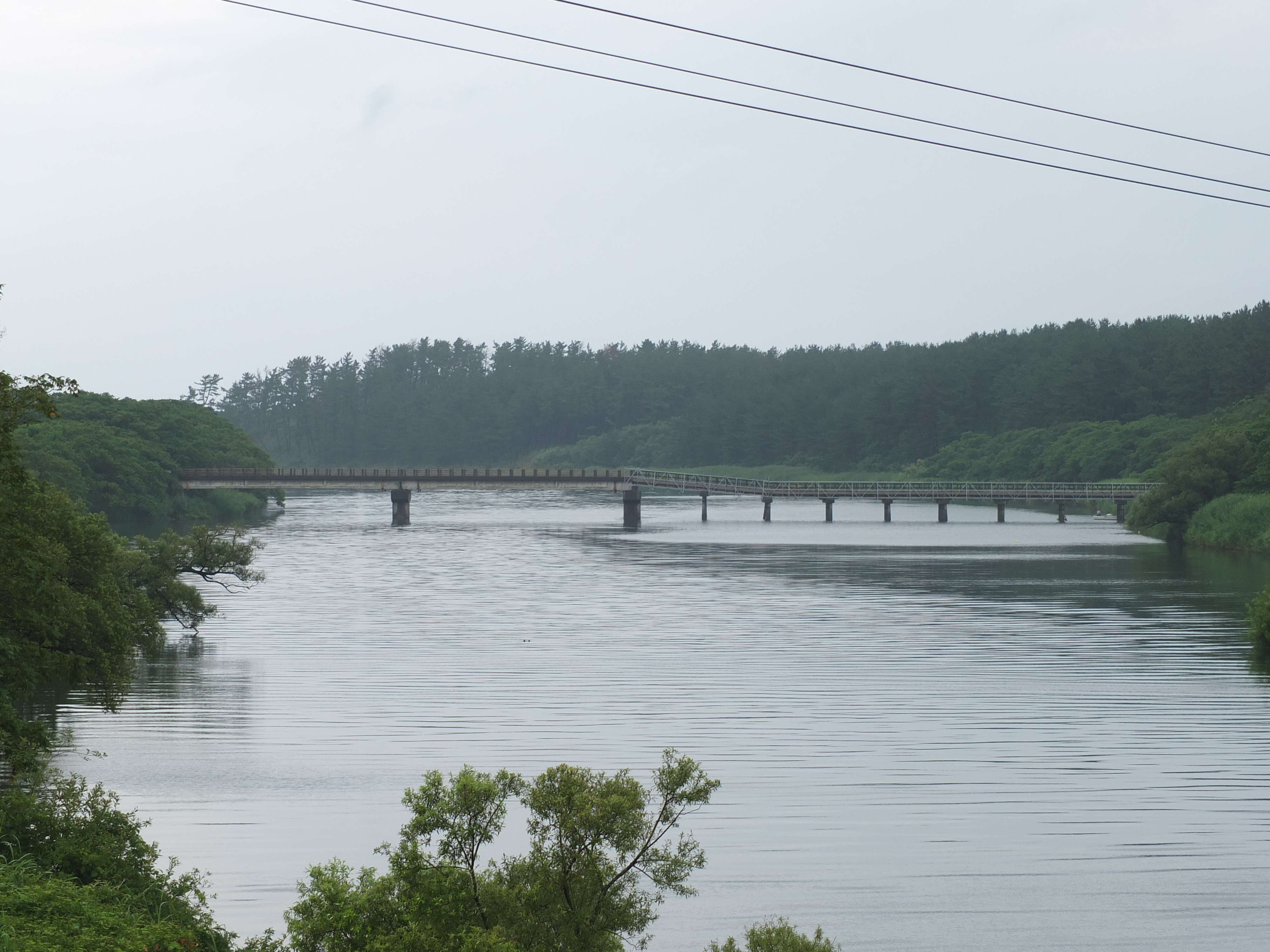 Sakae-basi (bridge) on Nikkou-gawa, at Yuza town, Akumi district, Yamagata prefecture, Japan. Its Wood handrails are reinforced with steel pipes.